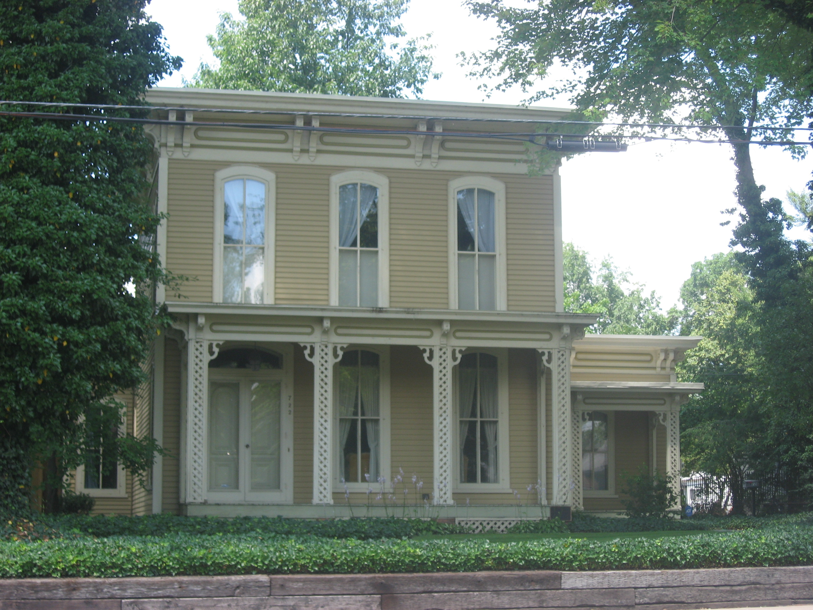 Front of the Eller-Hosford House, located at 722 E. Lincolnway (State Road 933) in Mishawaka, Indiana, United States. Built in 1875, it is listed on the National Register of Historic Places.